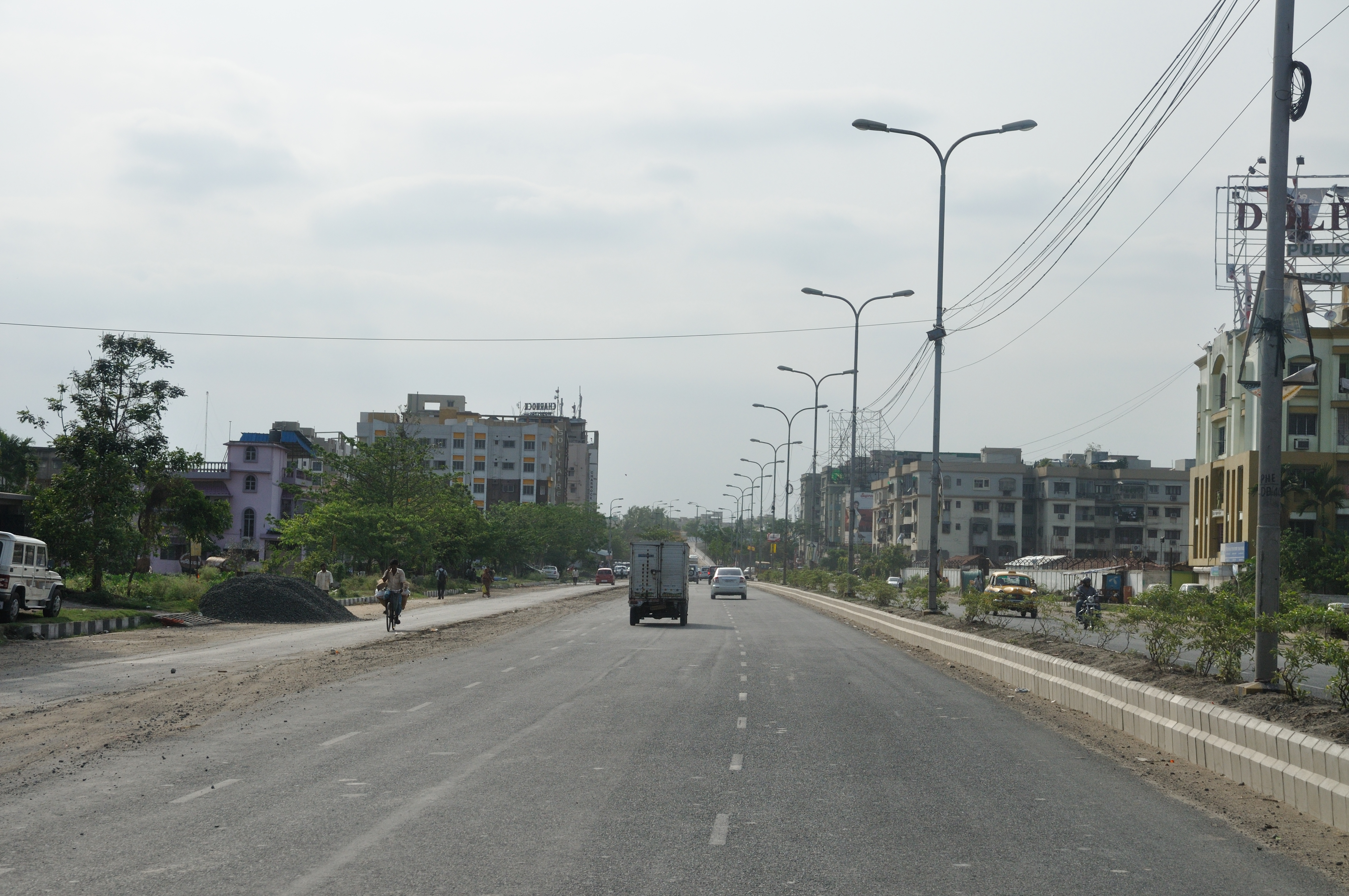 Photographed in greater Kolkata.